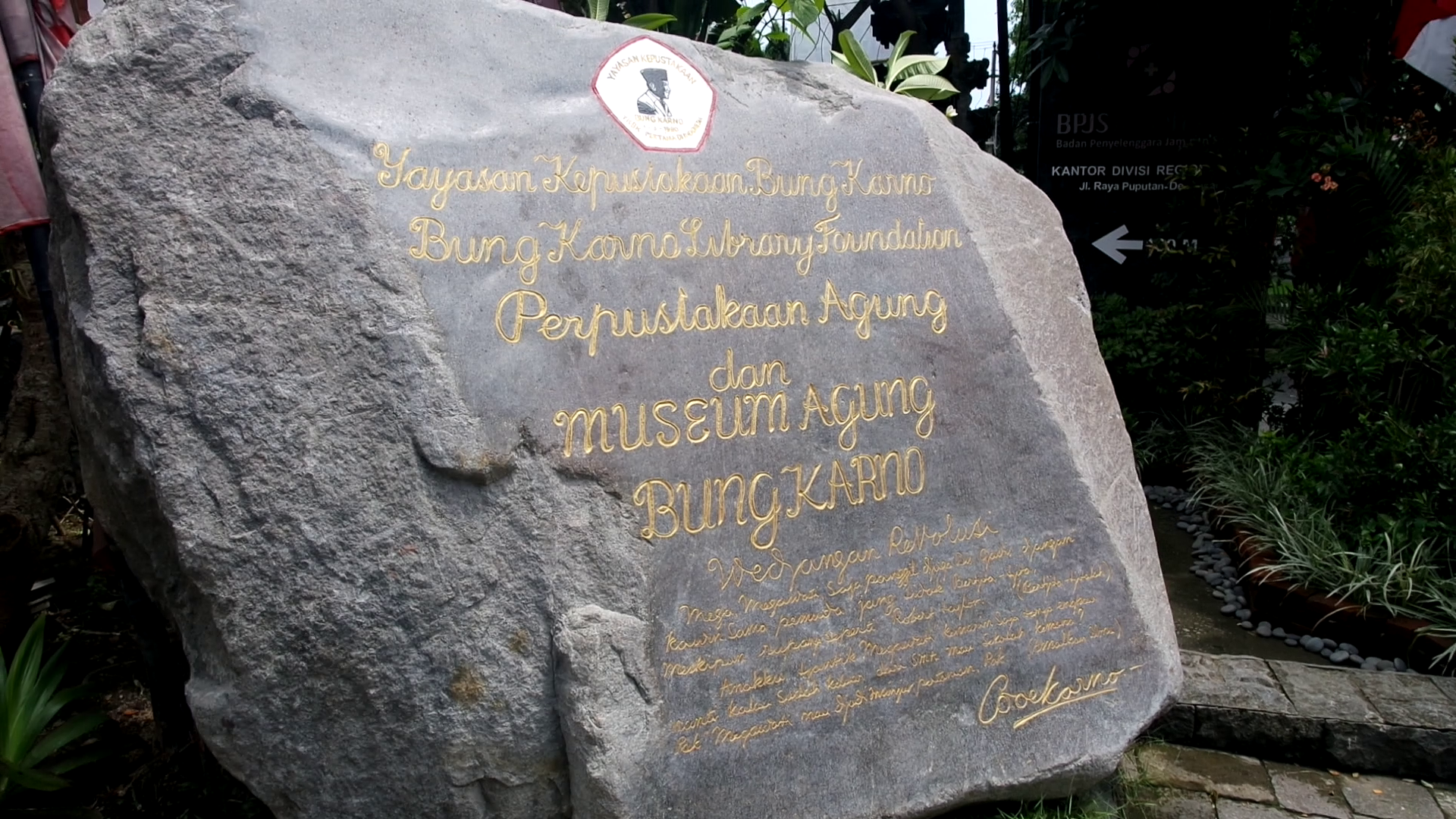 Museum Agung Bung Karno, Denpasar, Bali